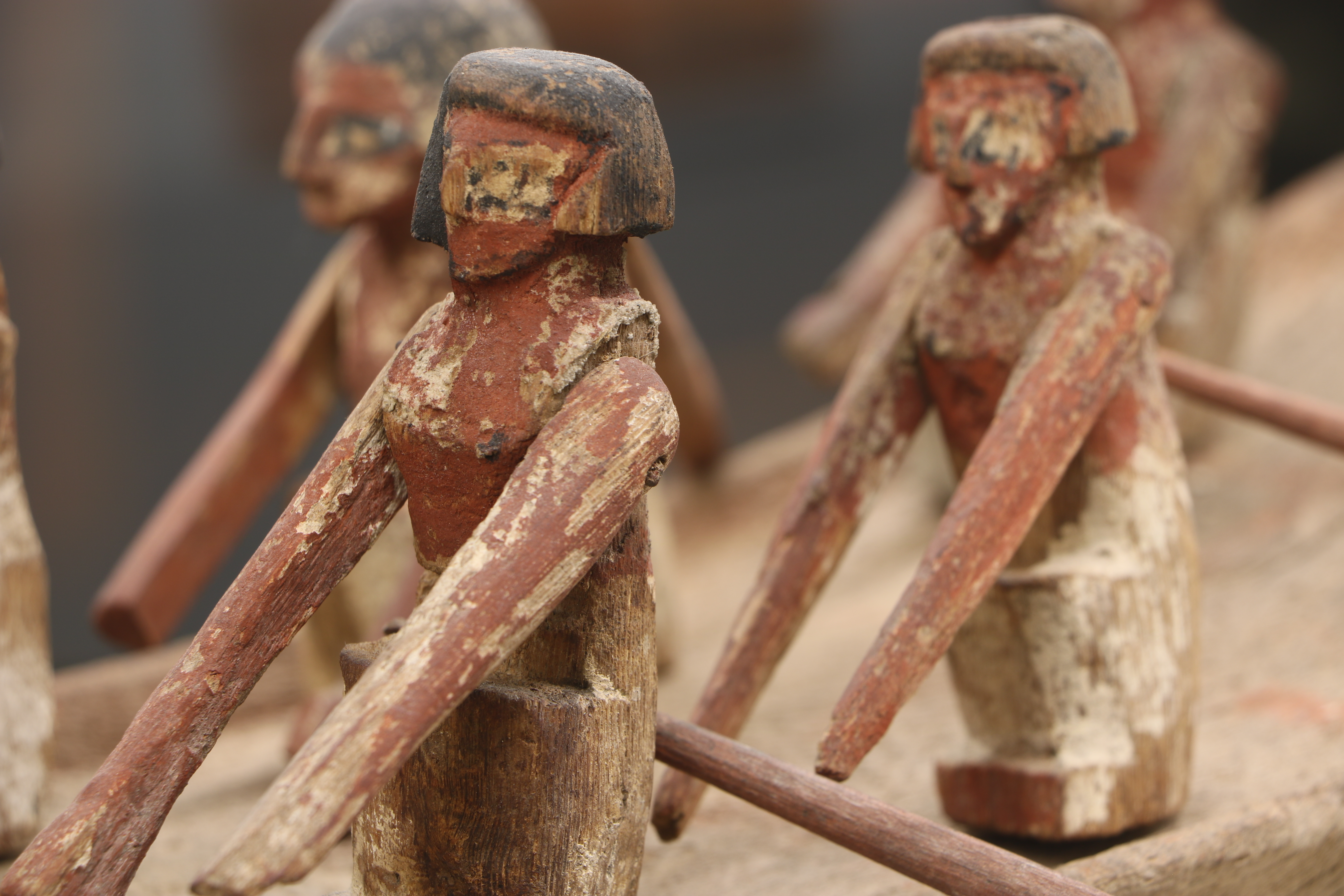 Ure Museum of Greek Archaeology E.23.3